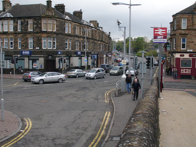 Bishopbriggs Cross, near to Bishopbriggs, East Dunbartonshire, Great Britain.